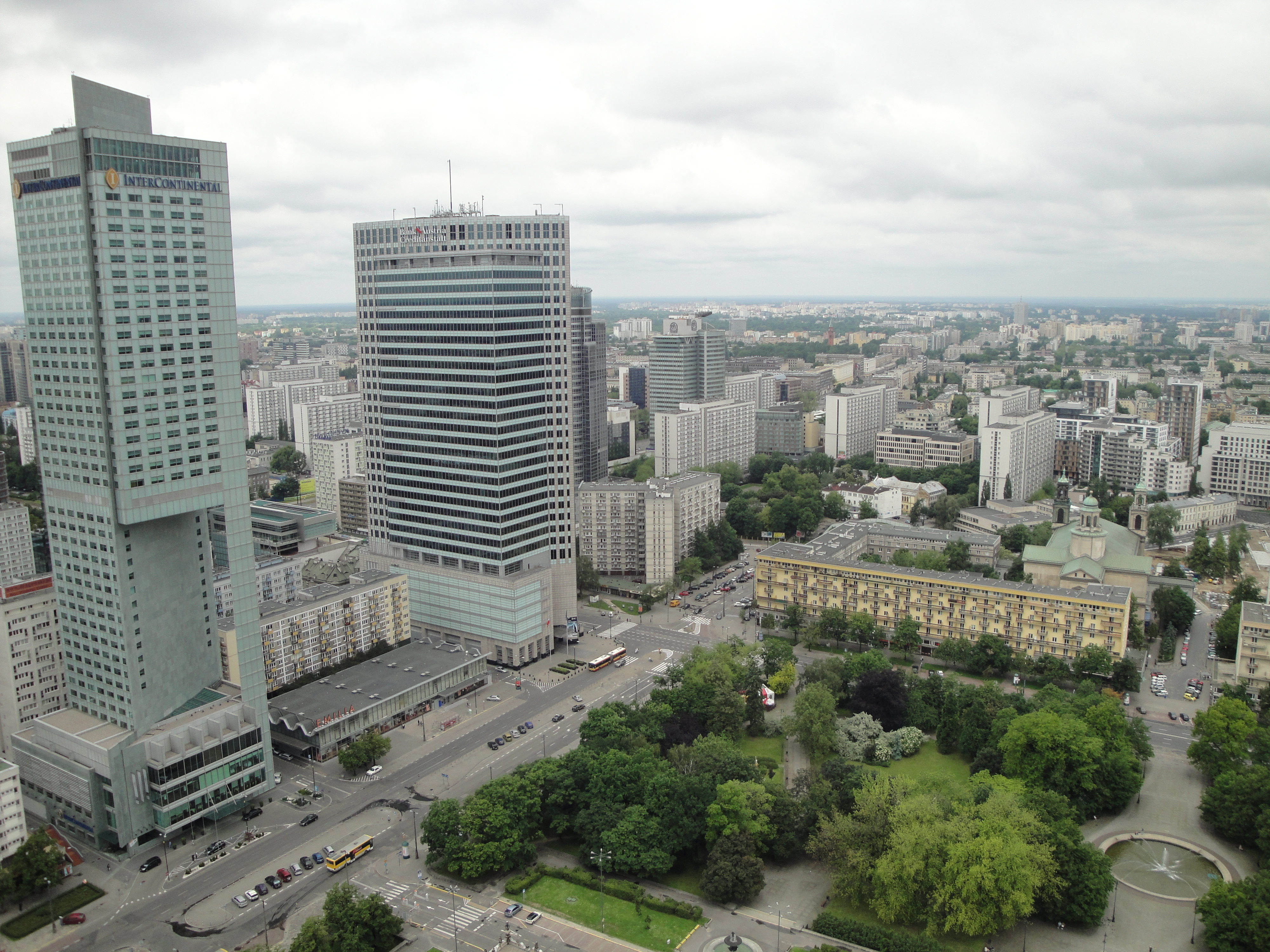 Skyscrapers in Warsaw.